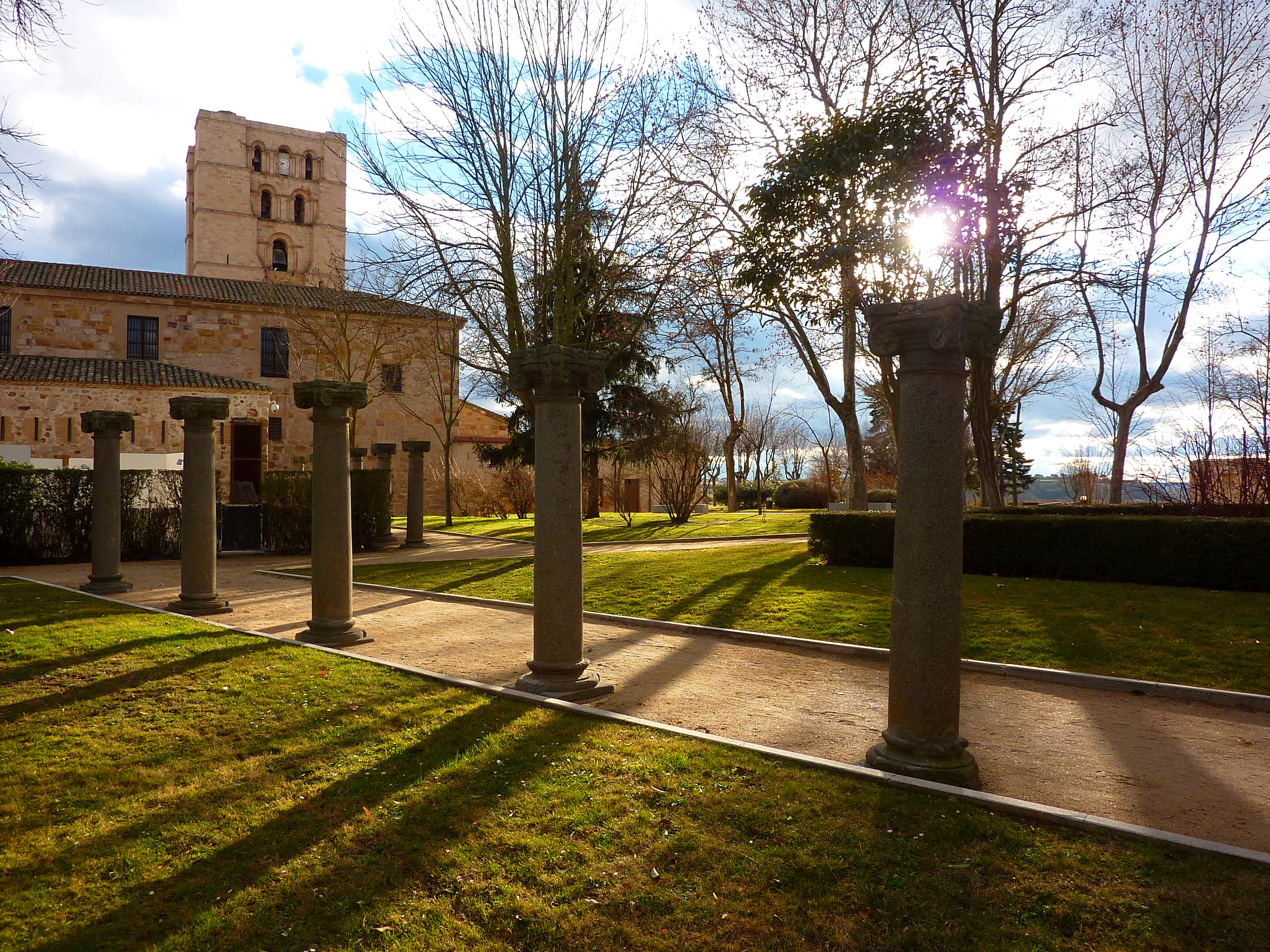 Columns belonging to one out of the five cloisters of the former Monastery of San Jerónimo (Saint Jerome), Zamora, Spain, in the Park of the town Castle.